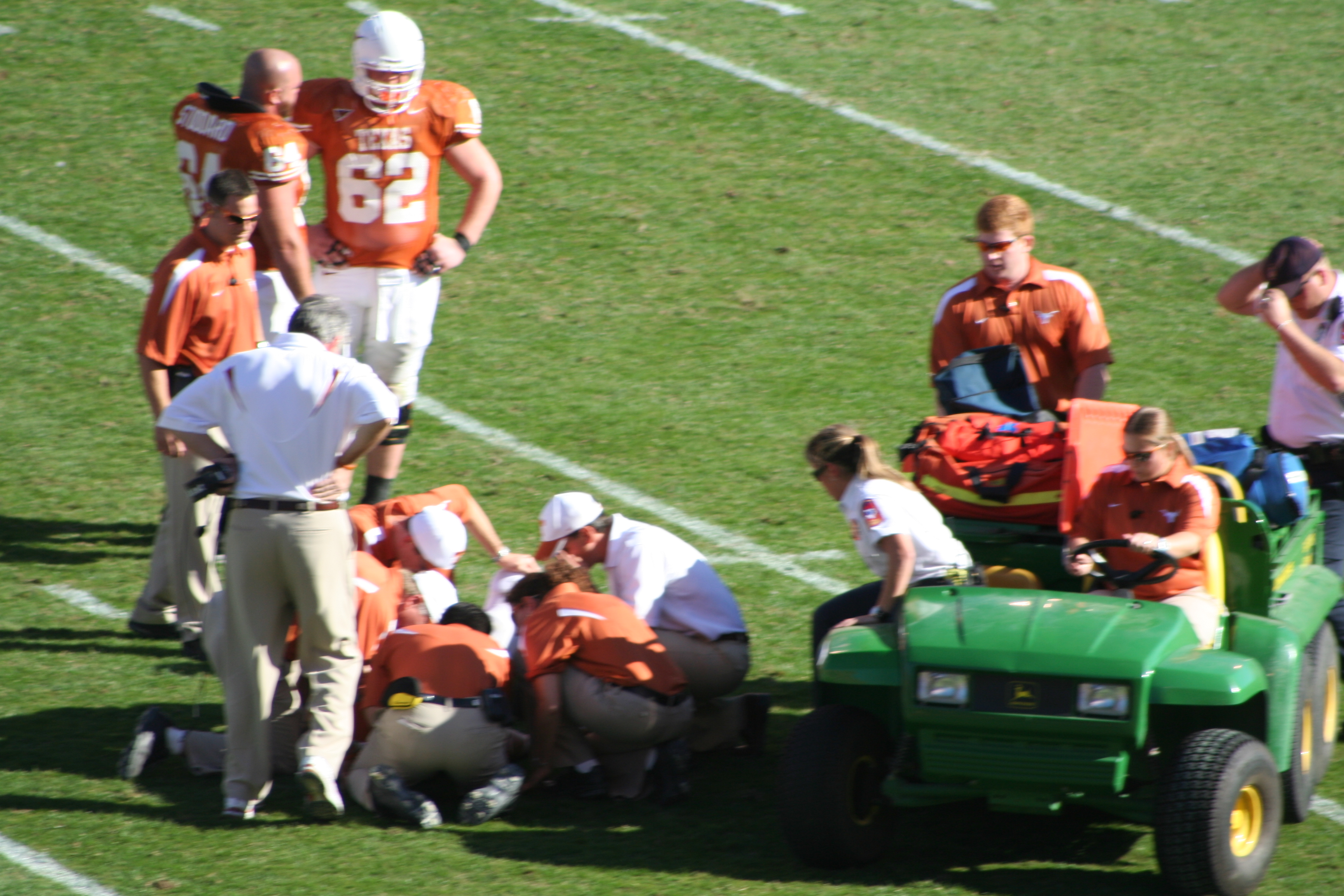 College football game betwen University of Texas at Austin and Texas A&M University - UT quarterback Colt McCoy after being injured and prior to being taken off the field on a cart because of a cheap hit by the Texas A&M player on Colt McCoy.